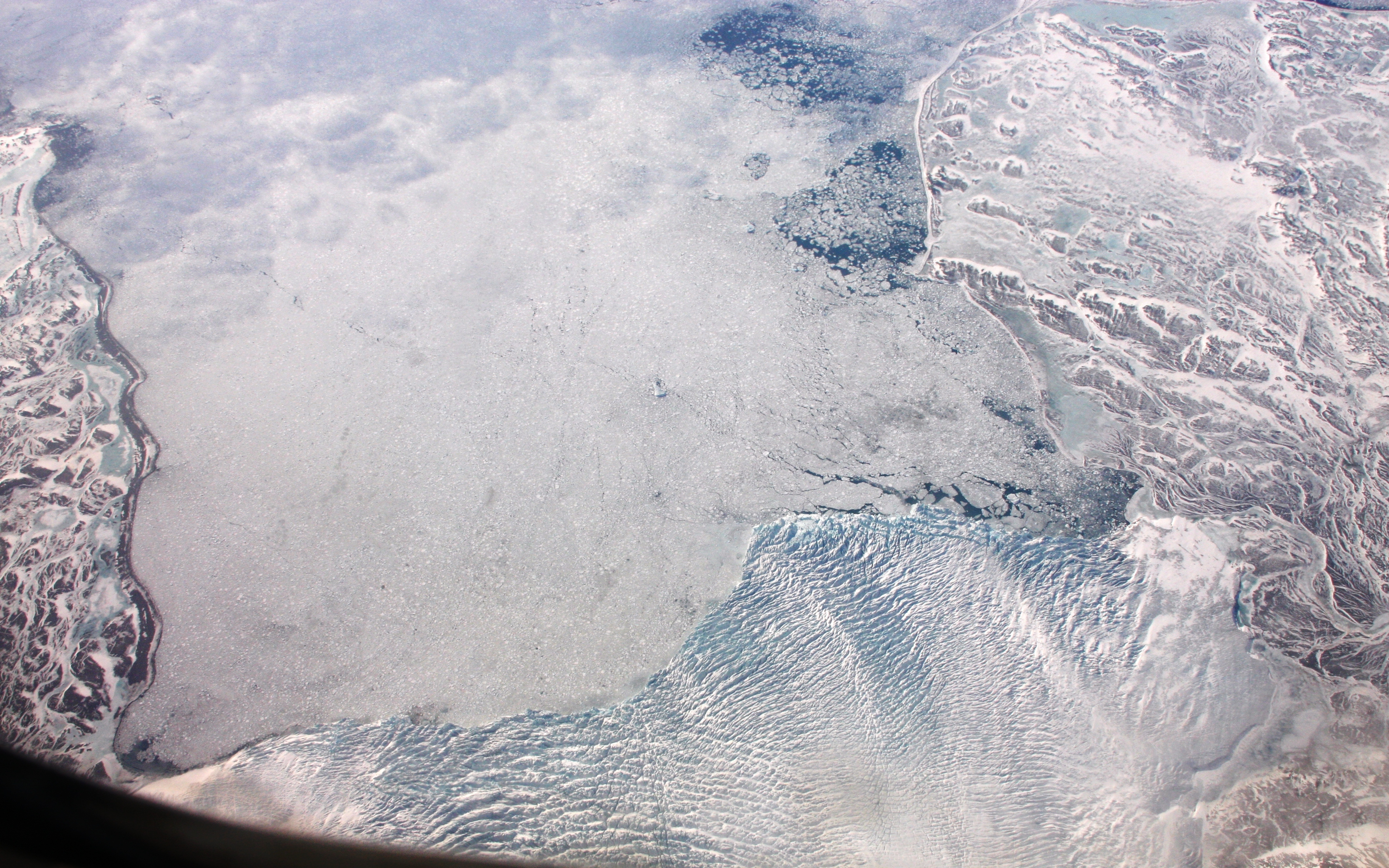 Eastern Torell Glacier, Wedel Jarlsberg Land, Spitsbergen. Seen from east towards west.